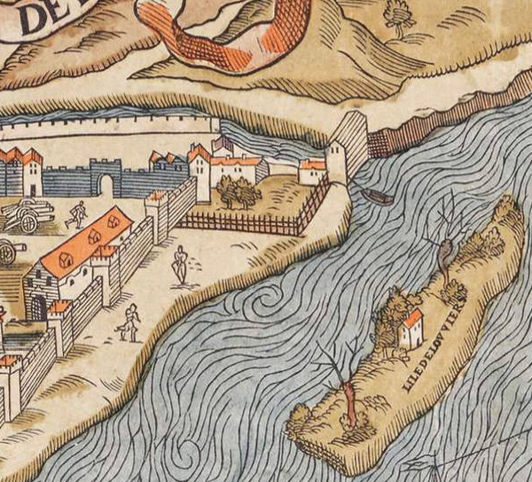 Louviers island on the plan of Truschet and Hoyau (1550).